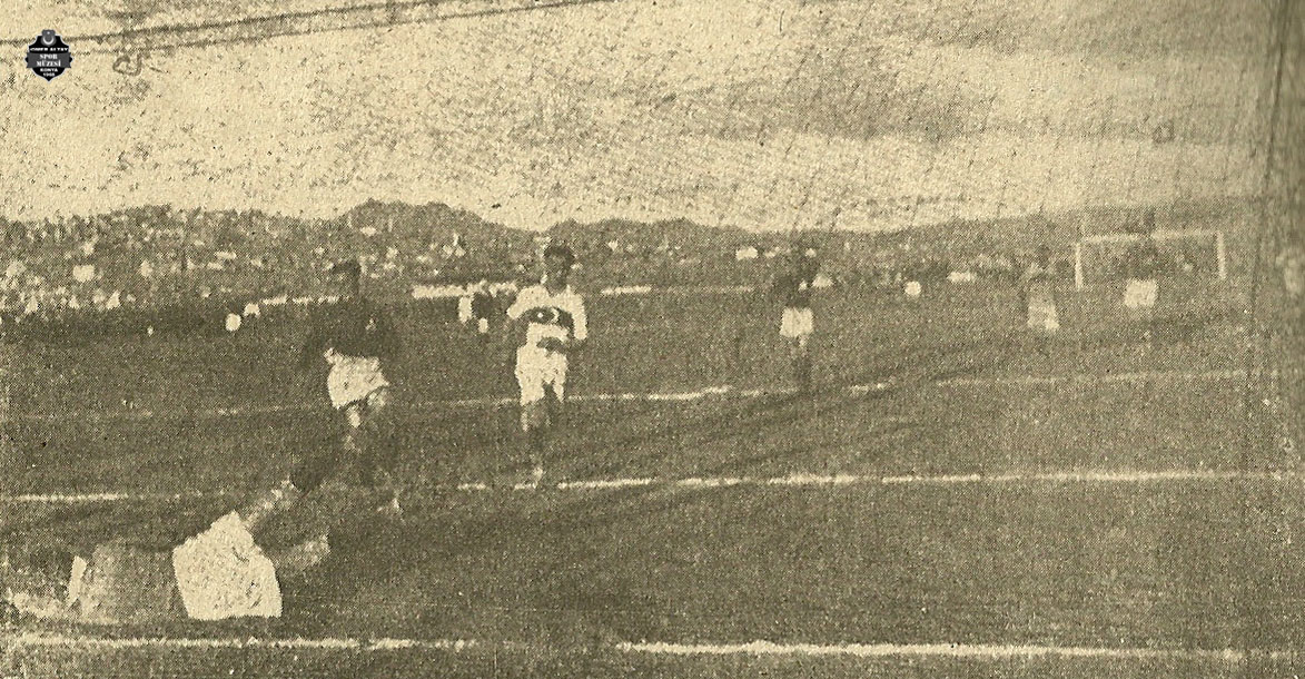 Turkey national football team against USSR national football team in İstiklal Sahası, Ankara (15 May 1925)